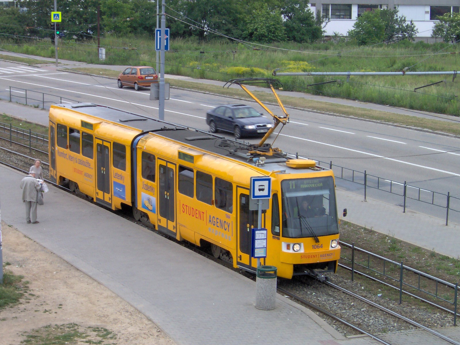 Tramway Tatra K2R, Brno, Czech Republic